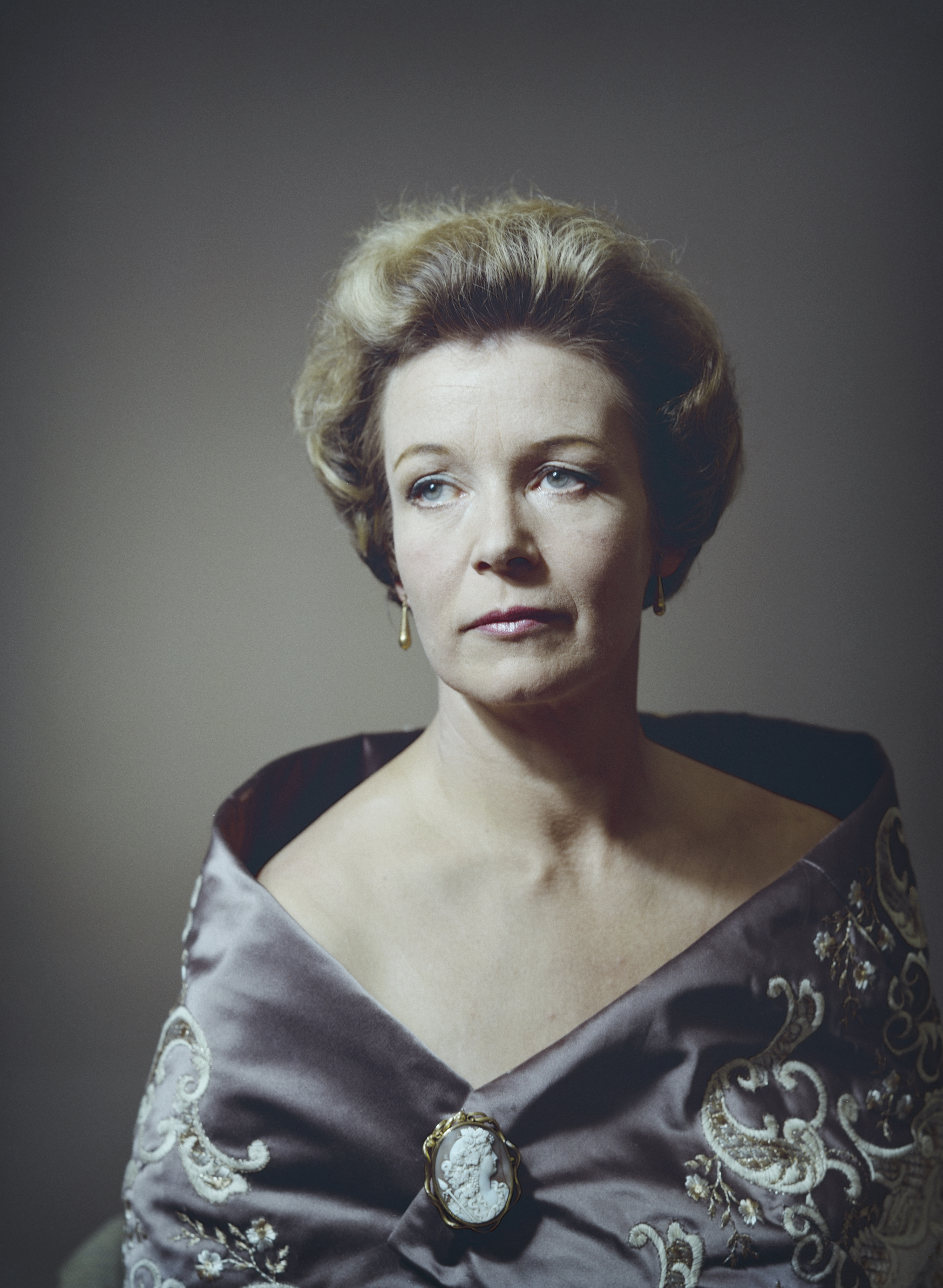 Photograph of the Finnish actor Asta Backman (1917–2010).